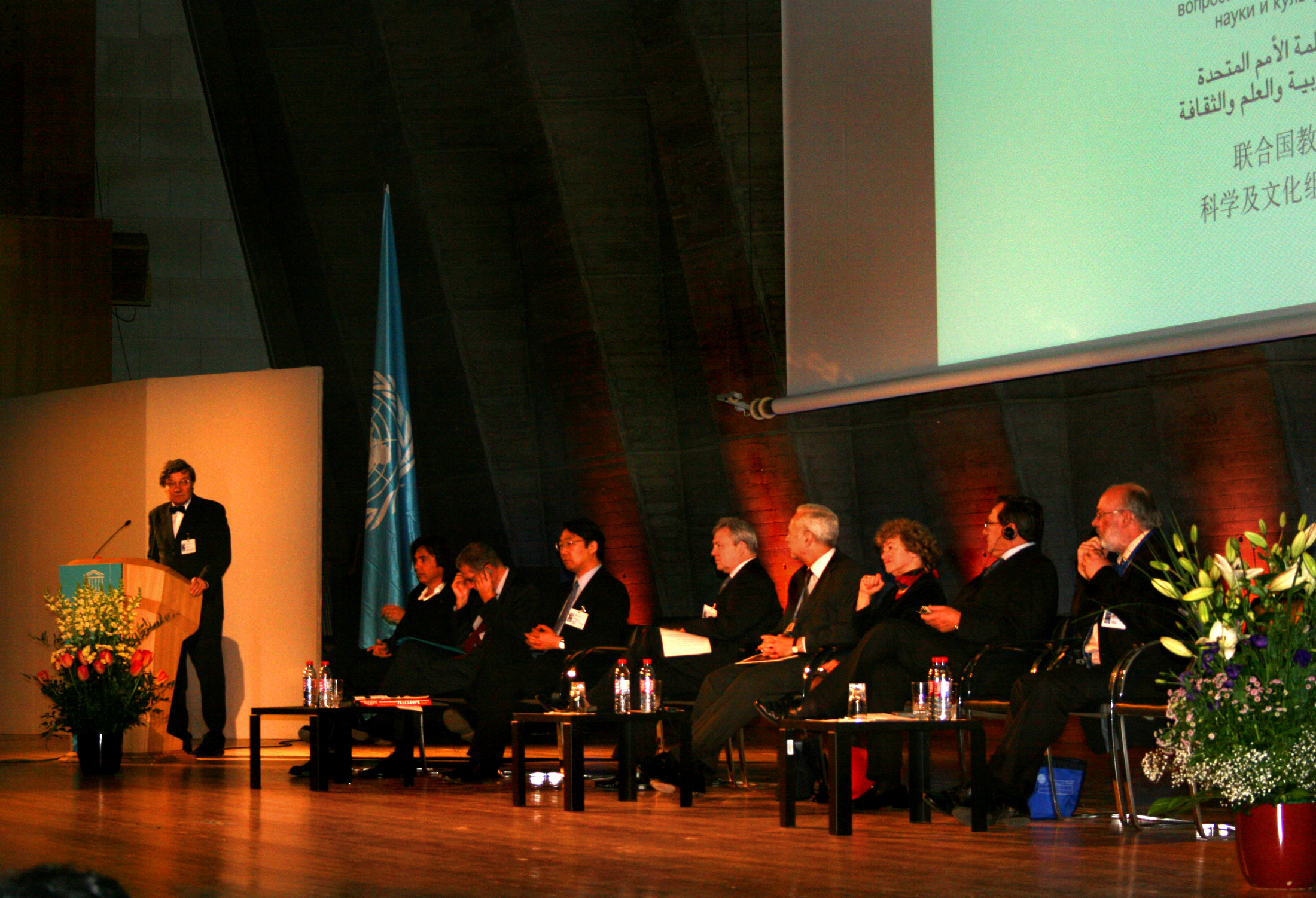 Launch of the International Year of Astronomy in Paris